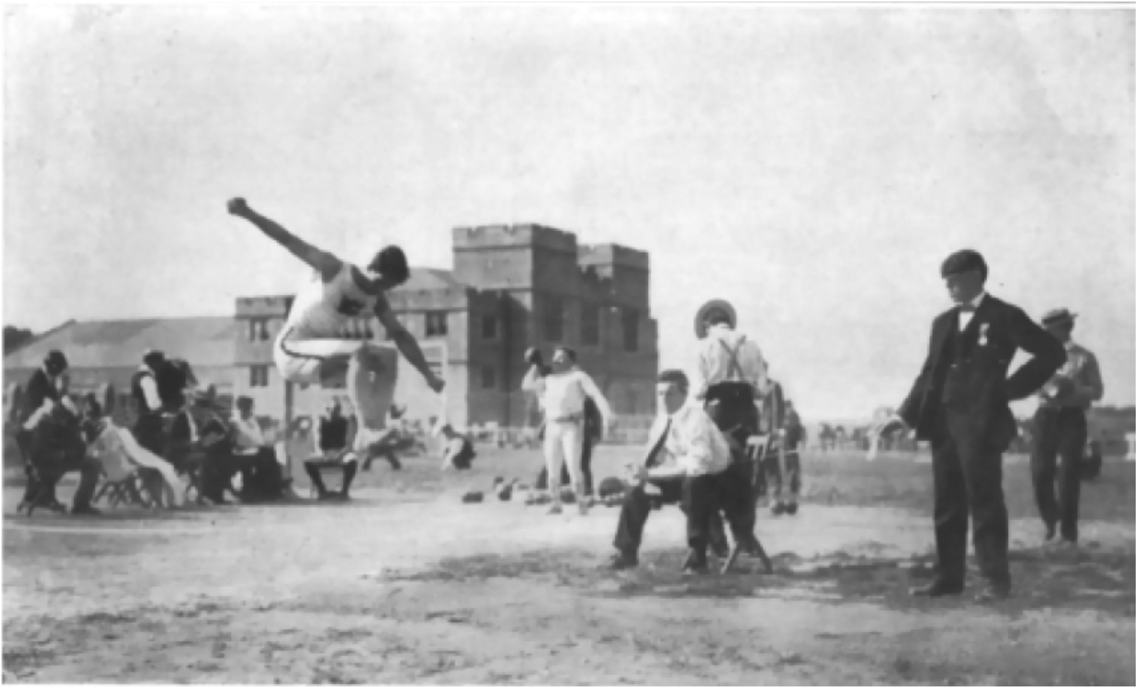 1904 Olympics. Francis Field. Francis Gymnasium can be seen in the background. Caption in report: "Defending his title. Myer Prinstein, Greater New York I. A. C."